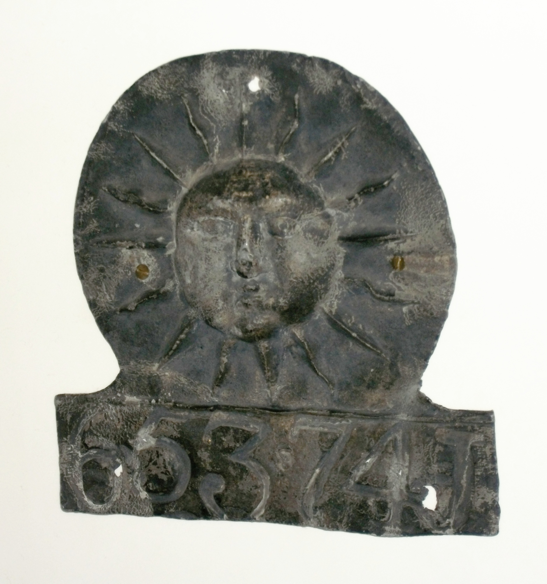 An fire plaque of the Sun Fire Office (established 1710) who were the first organization ever to use these devices. This one was issued to Richard Rogers, a bacon curer and cheesemonger on the 30th March 1796, as part of a policy taken out on his house and workshops on Queen Street, Portsea, Hampshire.